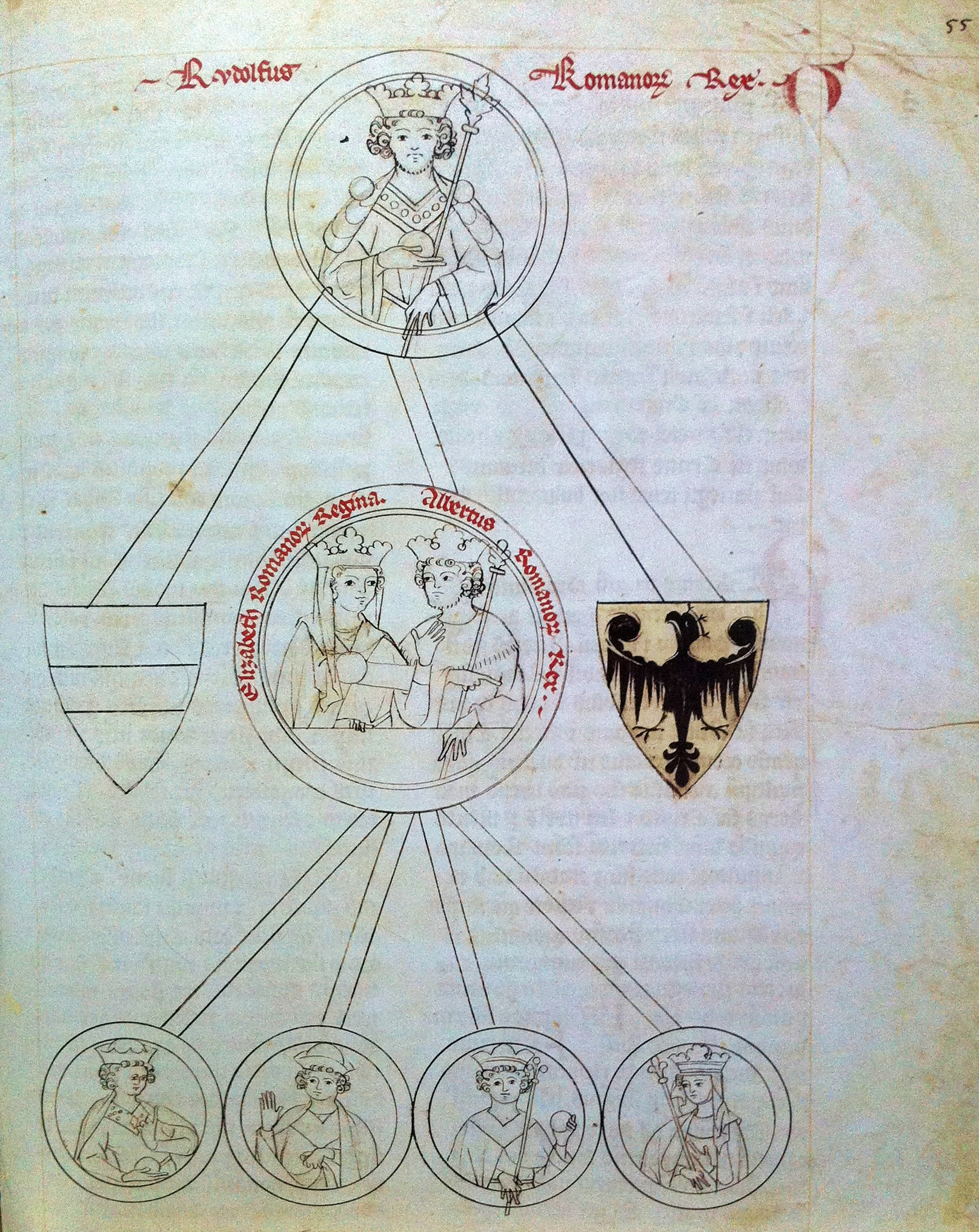 Family tree of the House of Habsburg from the so-called "Bärenhaut", a collection of deeds and charters from Zwettl Abbey (fol. 55r): Rudolph I, his son Albert I with his wife Elisabeth, and four of their children, presumably Rudolf III, Leopold I, Frederick I and Agnes.